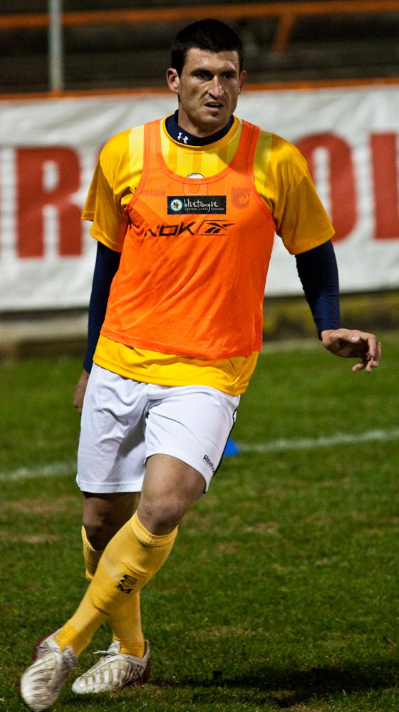 Nik Mrdja at a pre-season match between the Central Coast Mariners and Sydney FC.